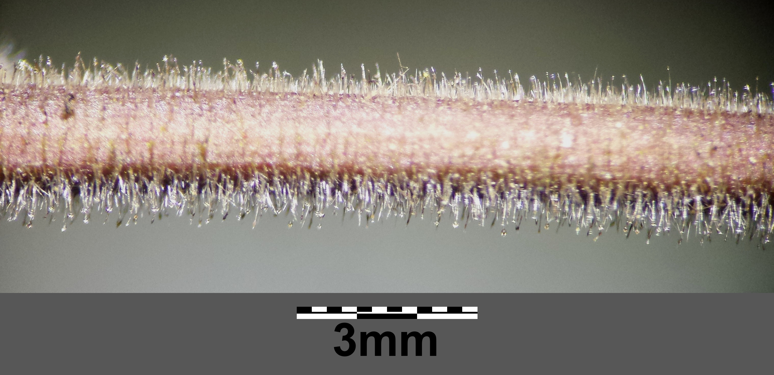 Stipe with gland hairs Taxonym: Abutilon theophrasti ss Fischer et al. EfÖLS 2008 ISBN 978-3-85474-187-9 Location: near Unterzögersdorf, district Korneuburg, Lower Austria - ca. 175 m a.s.l. Habitat: field (sugar beet)